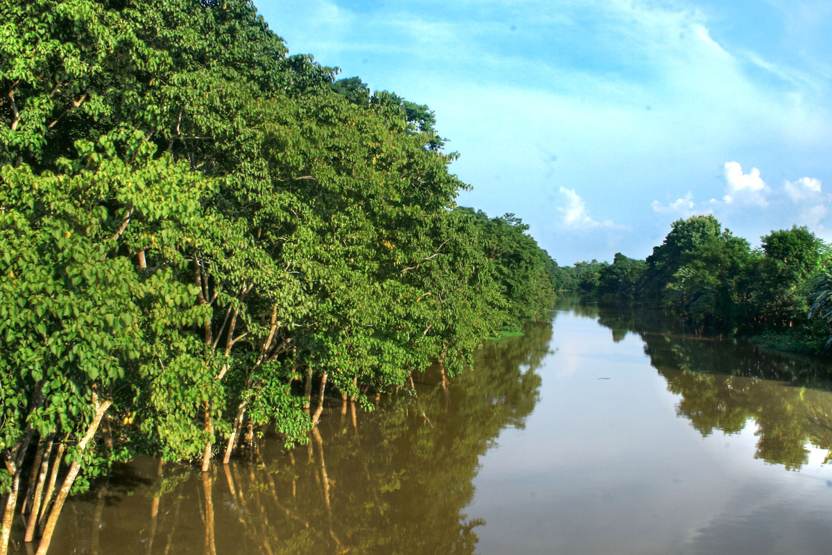 "Kolong" --- the heart line of Nagaon